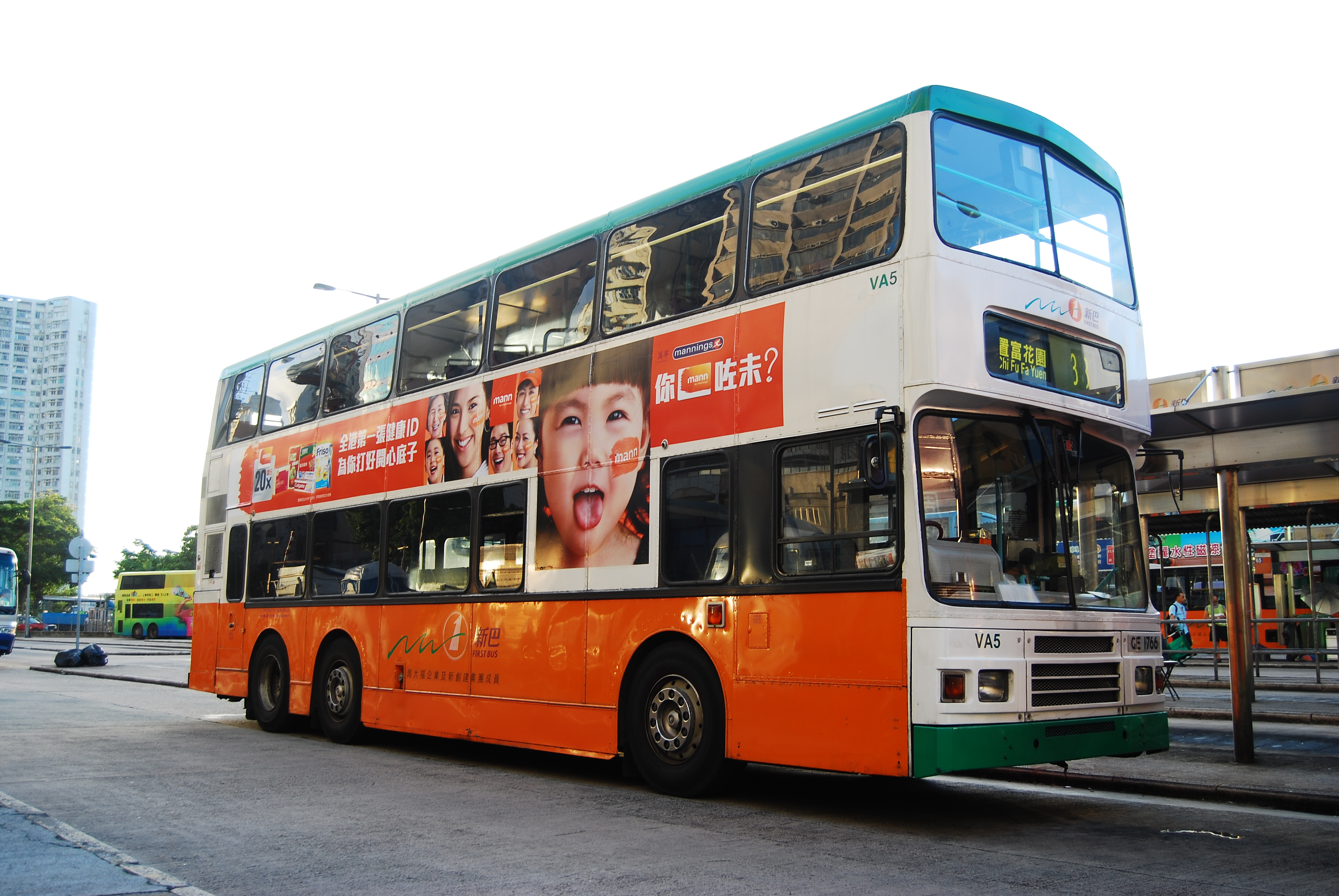 New World First Bus' Volvo Olympian 11m